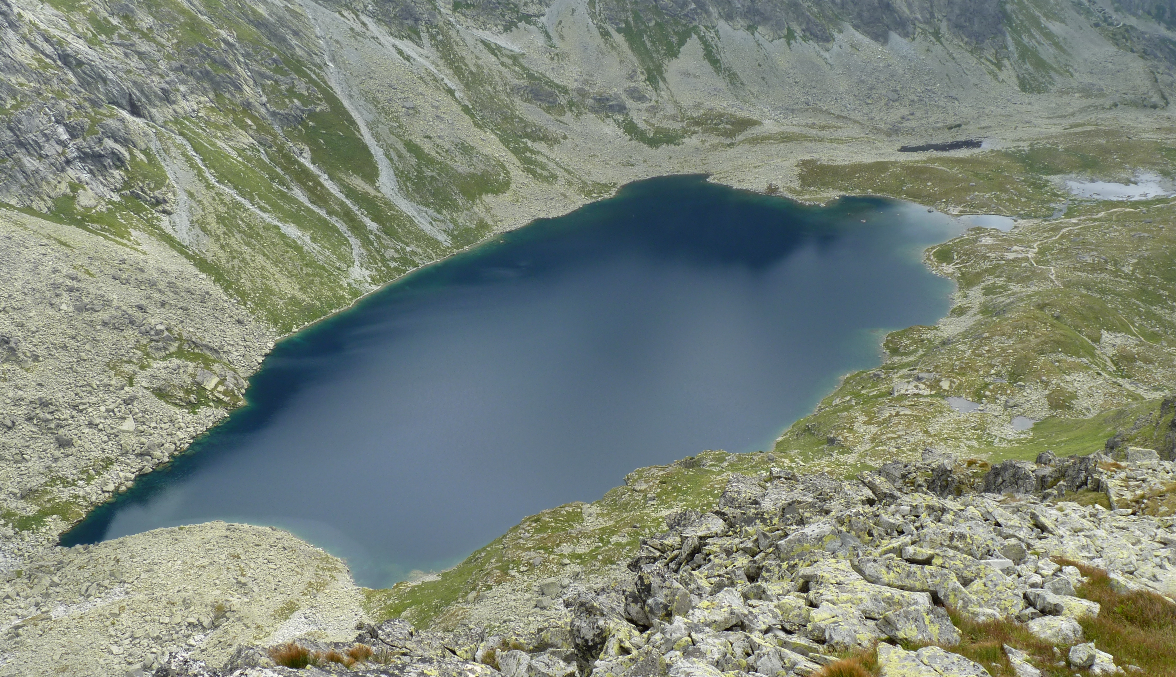 Veľké Hincovo pleso. Mengusovská Valley, Tatra Mountains, Slovakia